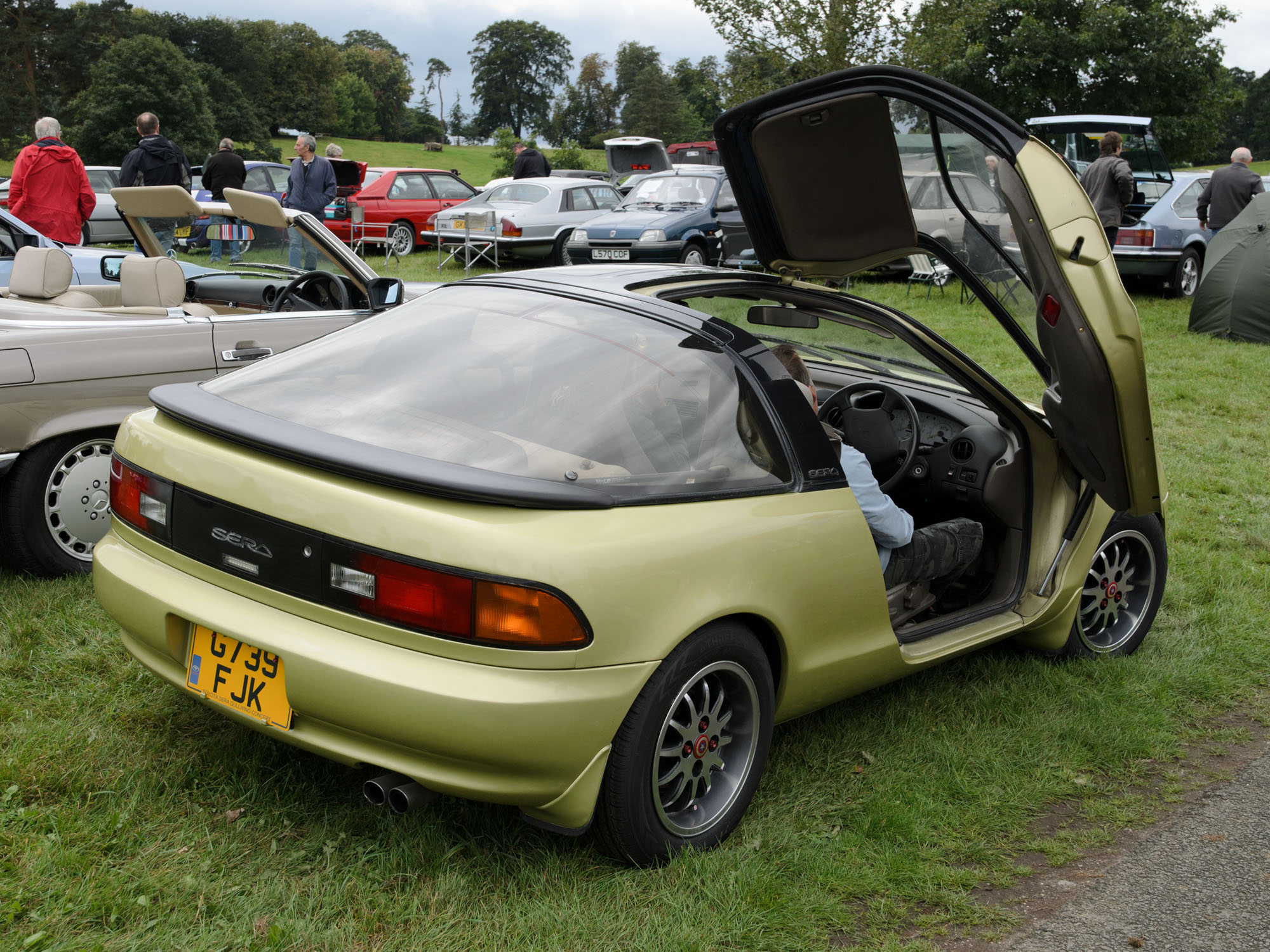 1990 Toyota Sera at the Cholmondeley Classic Car Show 04/09/2016